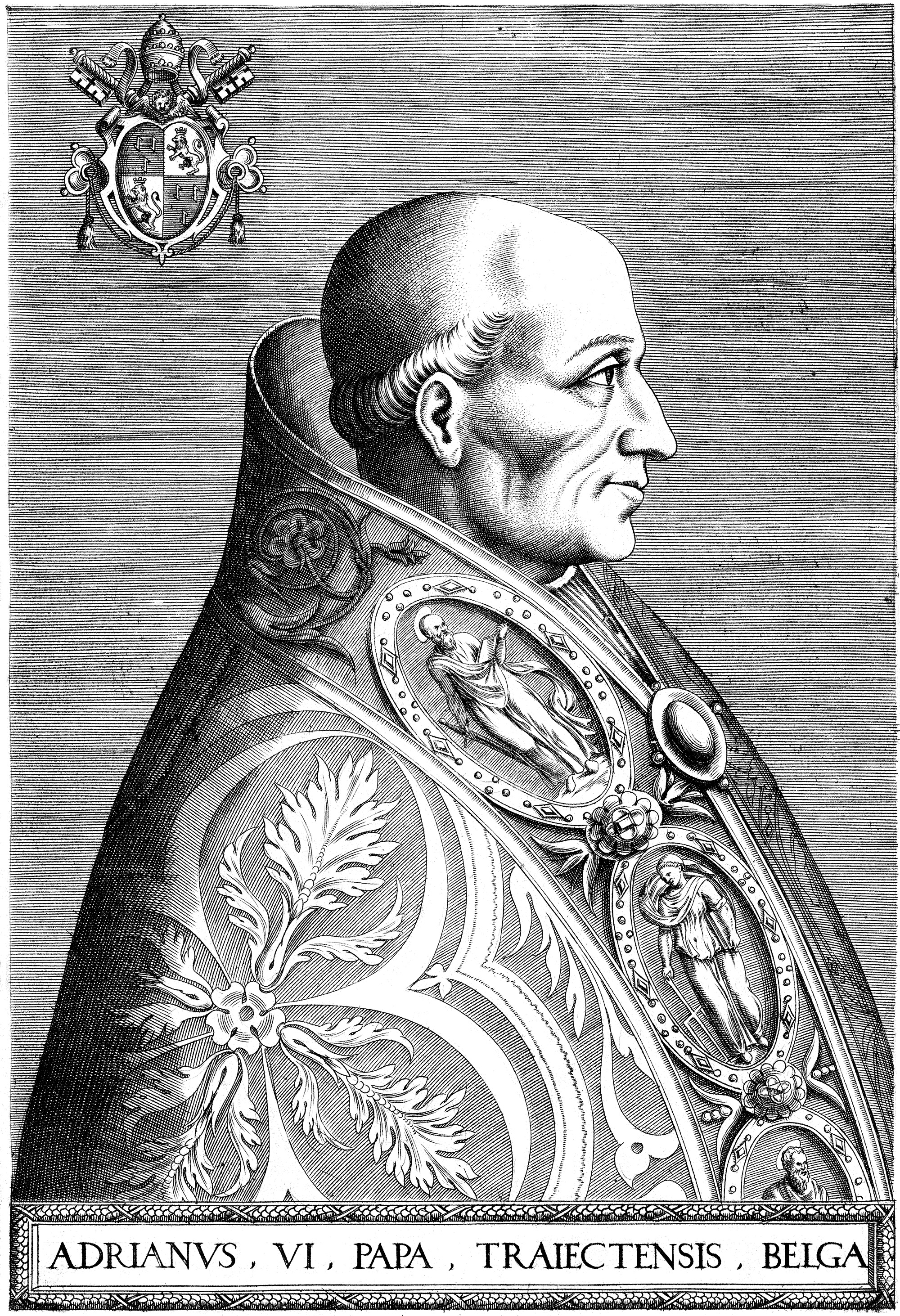 Portrait of Pope Hadrian VI (1495-1523).